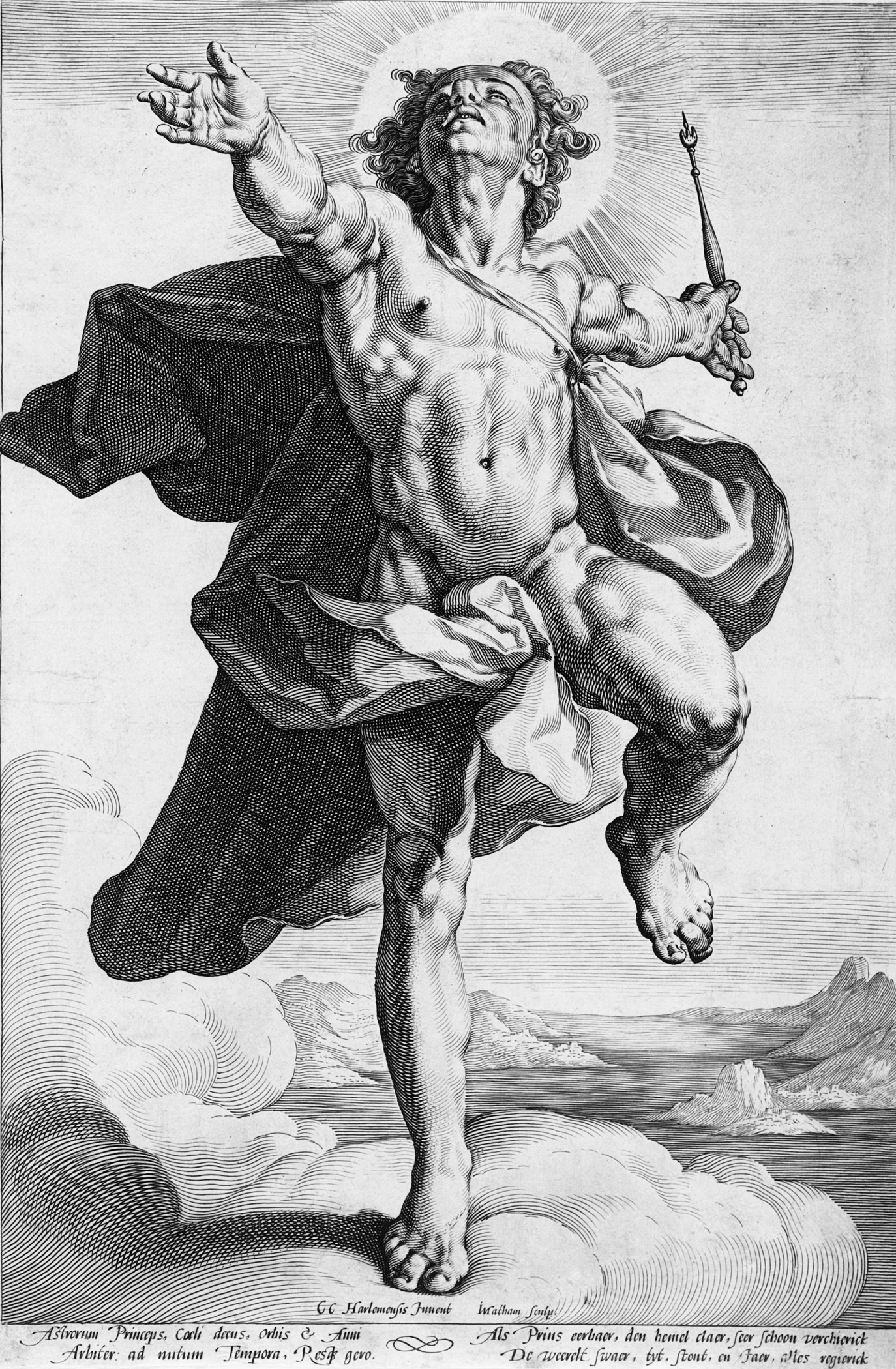 Holland, circa 1591 Prints; engravings Engraving Mary Stansbury Ruiz Bequest (M.88.91.116) Prints and Drawings